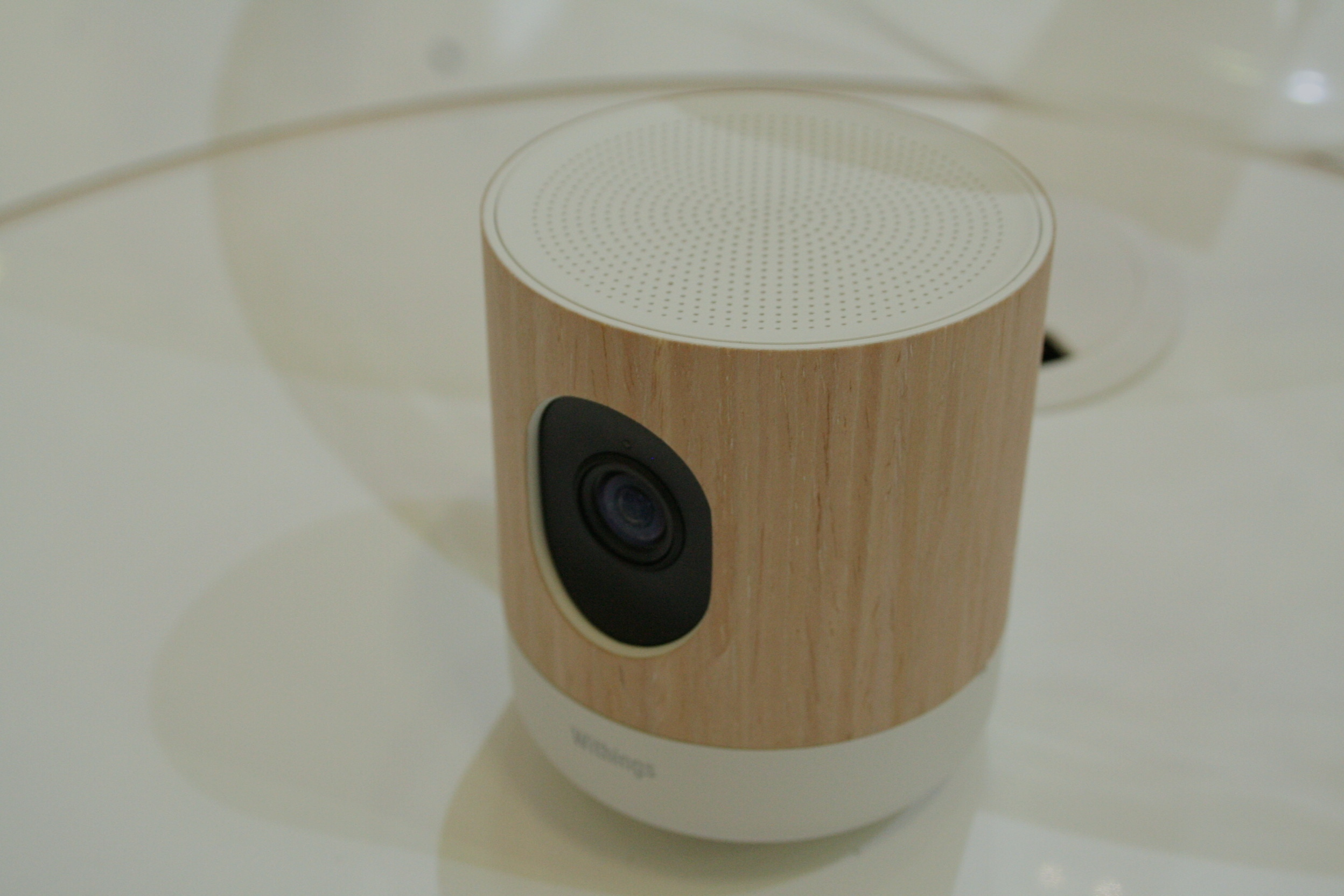 Withings Home